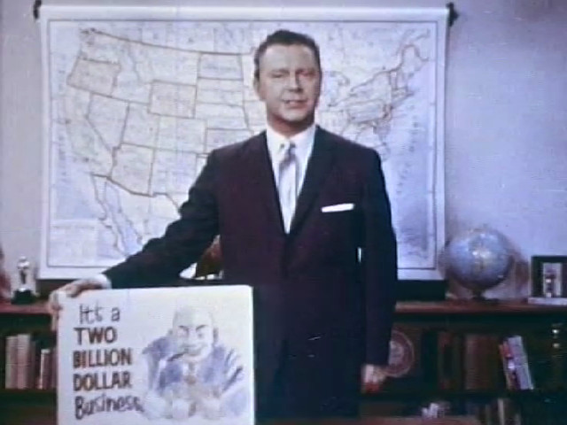 George Putnam in the 1965 anti-pornography propaganda film Perversion for Profit, which is available in the public domain.Still image from Perversion for Profit, a 1965 propaganda film available in the public domain from the Internet Archive's Prelinger Collection. Event occurs at 0 hours, 2 minutes, 46 seconds and 25 frames.